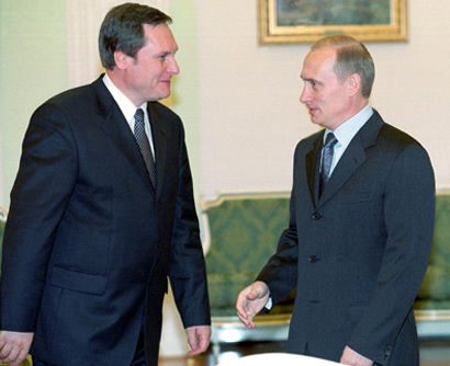 THE KREMLIN, MOSCOW. President Putin with Moldovan Prime Minister Dumitru Braghis.